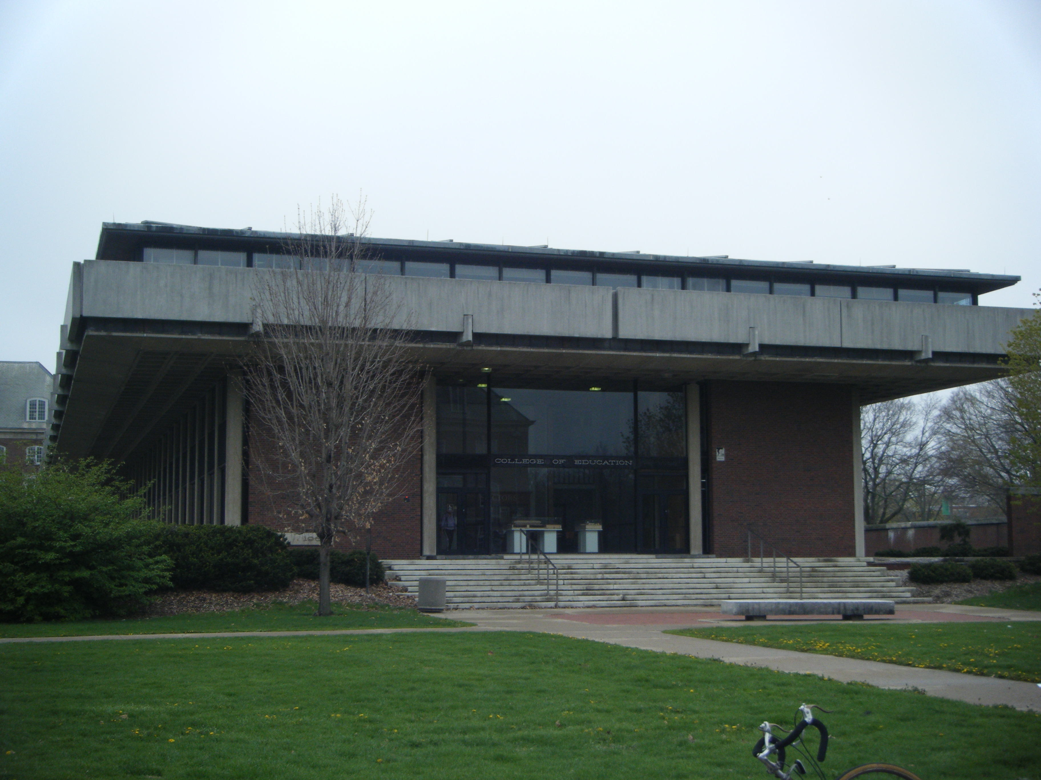 The University of Illinois-Urbana Champaign College of Education building